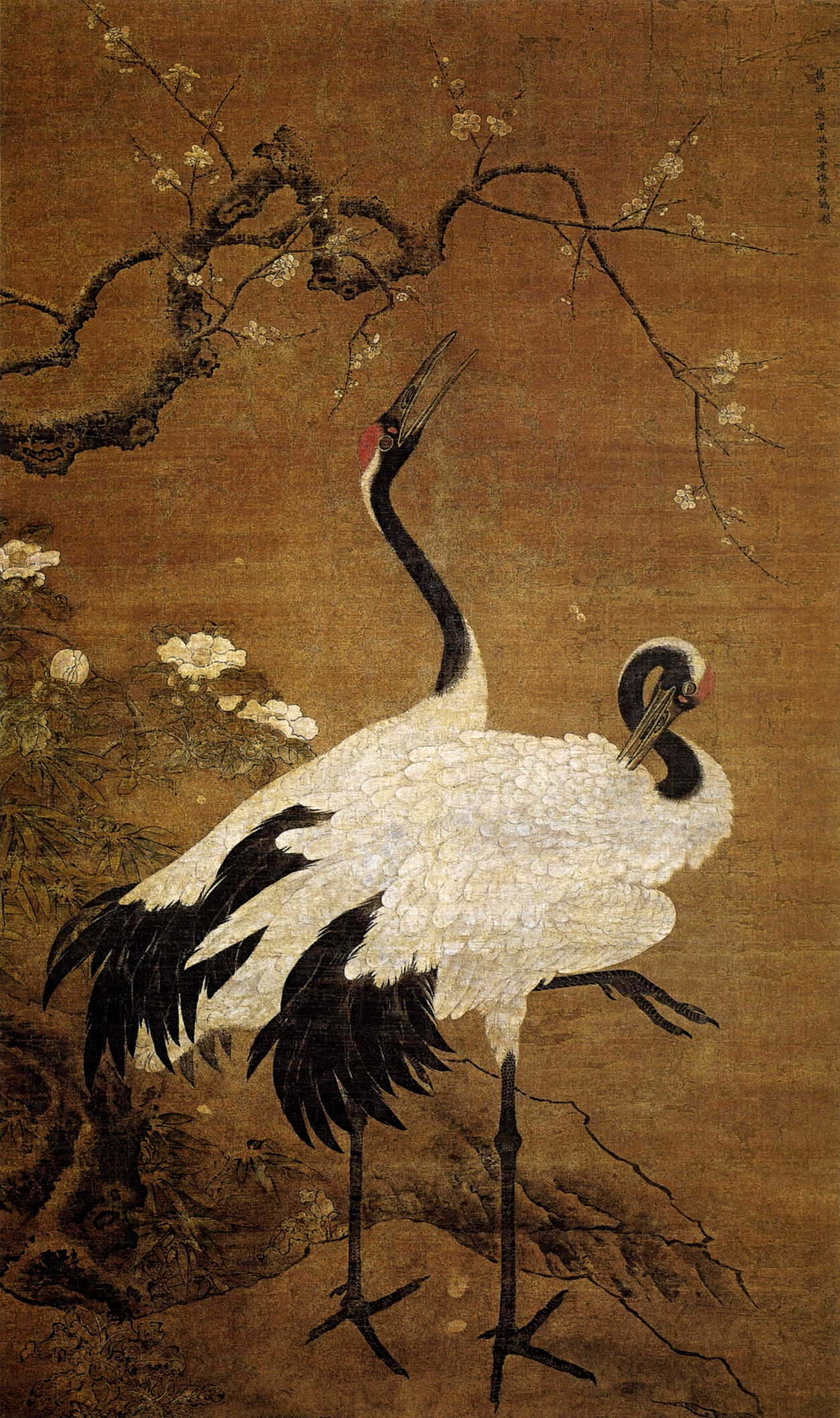 Snow Plums and Twin Cranes, hanging scroll, color on silk, 156 x 91 cm. Located at the Guangdong Provincial Museum.